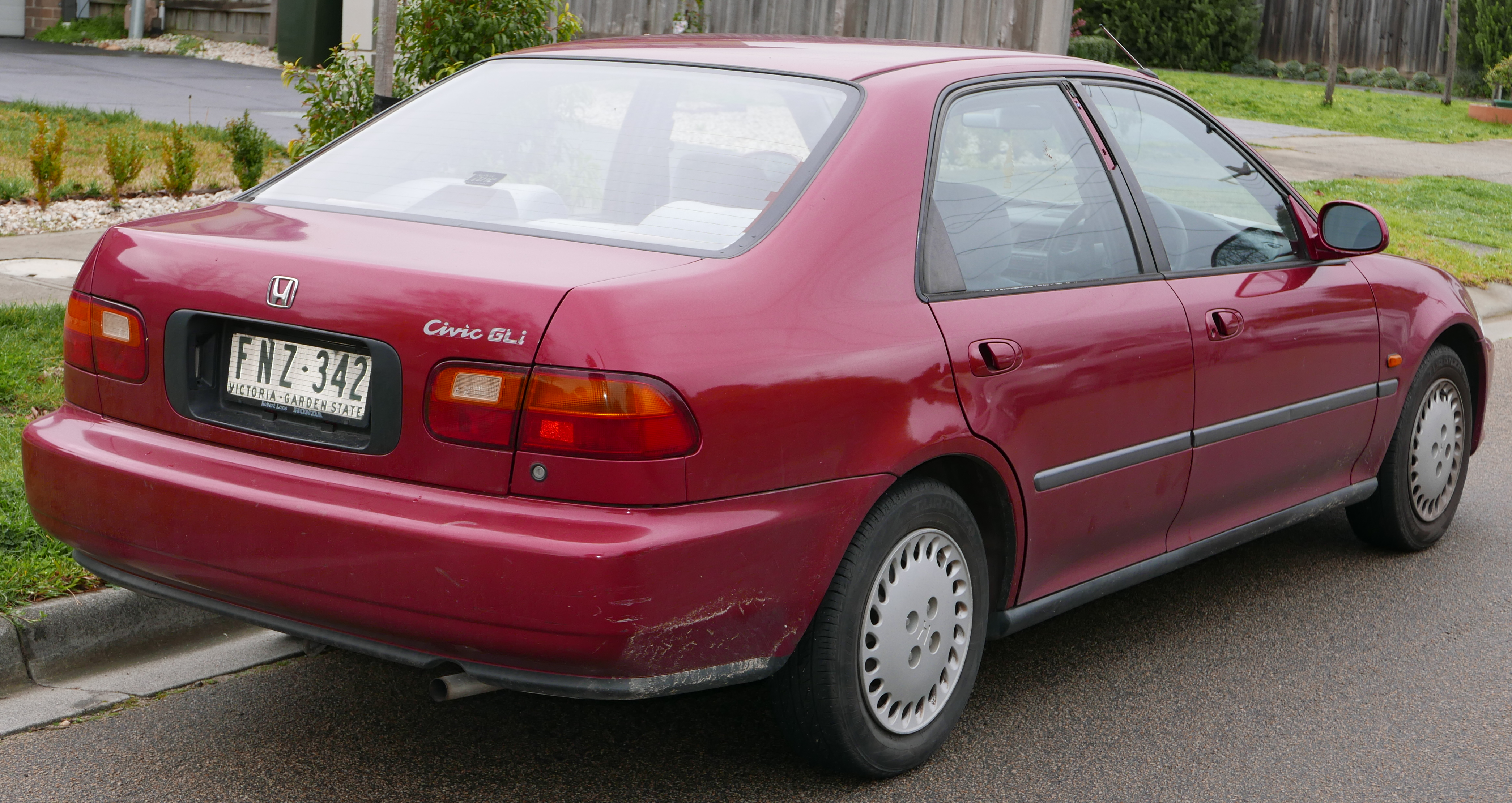 1994 Honda Civic (EG) GLi sedan. Photographed in Doncaster East, Victoria, Australia. Vehicle registration enquiry results Jurisdiction Victoria Registration FNZ342 Chassis code JHMEG86400S224002 Engine code D15B73709325 Compliance date 1994-05 Year of manufacture 1994